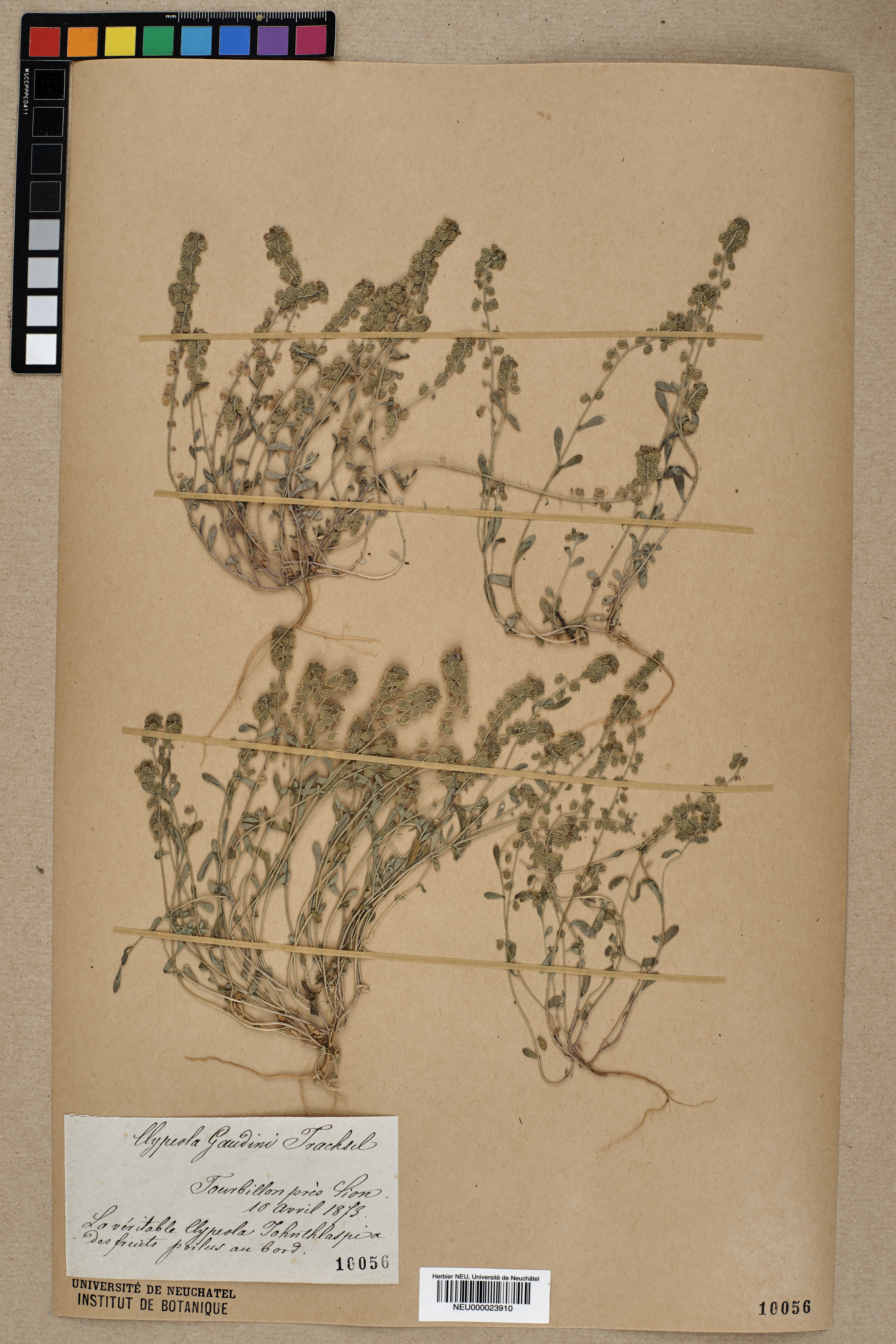 Dried pressed specimen of Clypeola jonthlaspi